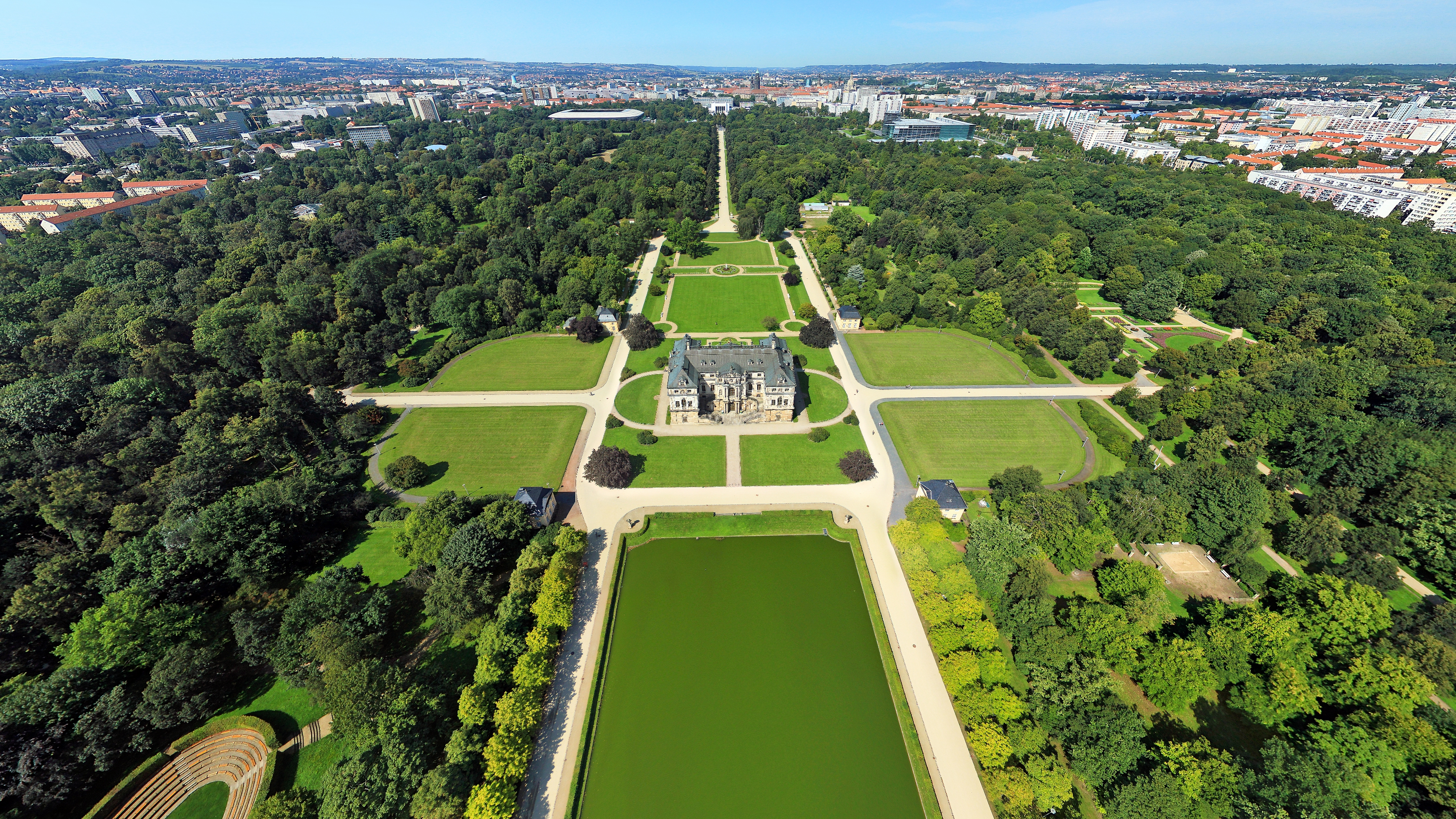 This aerial photo shows the central part of the Großer Garten in Dresden. The image was created by projection out of a 360° aerial panorama of the Großen Garten (Link to the aerial panorama [1]).